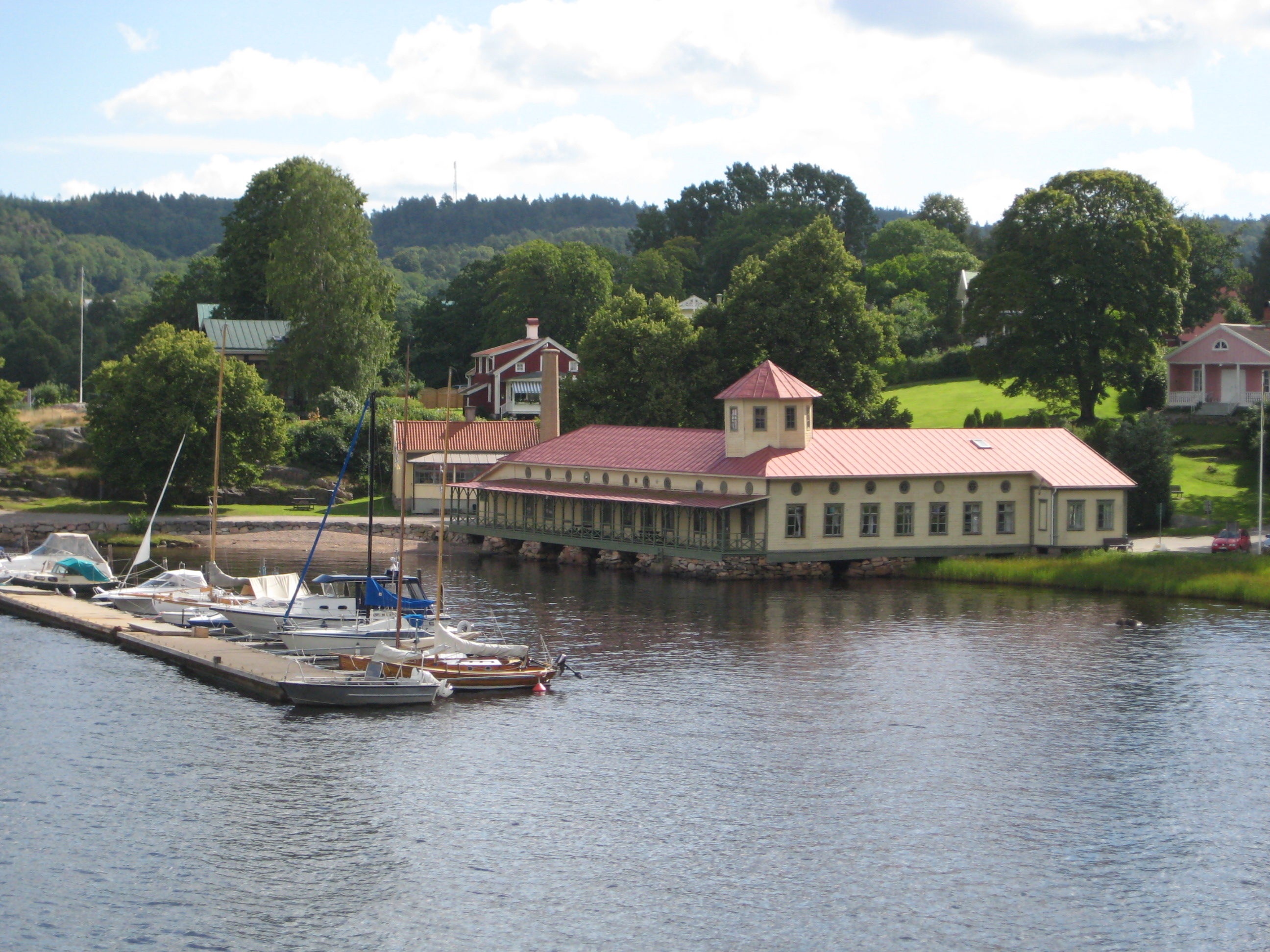 Hostel in Gustafsberg in Uddevalla, from the sea side. Formerly the greater temperated bath house.